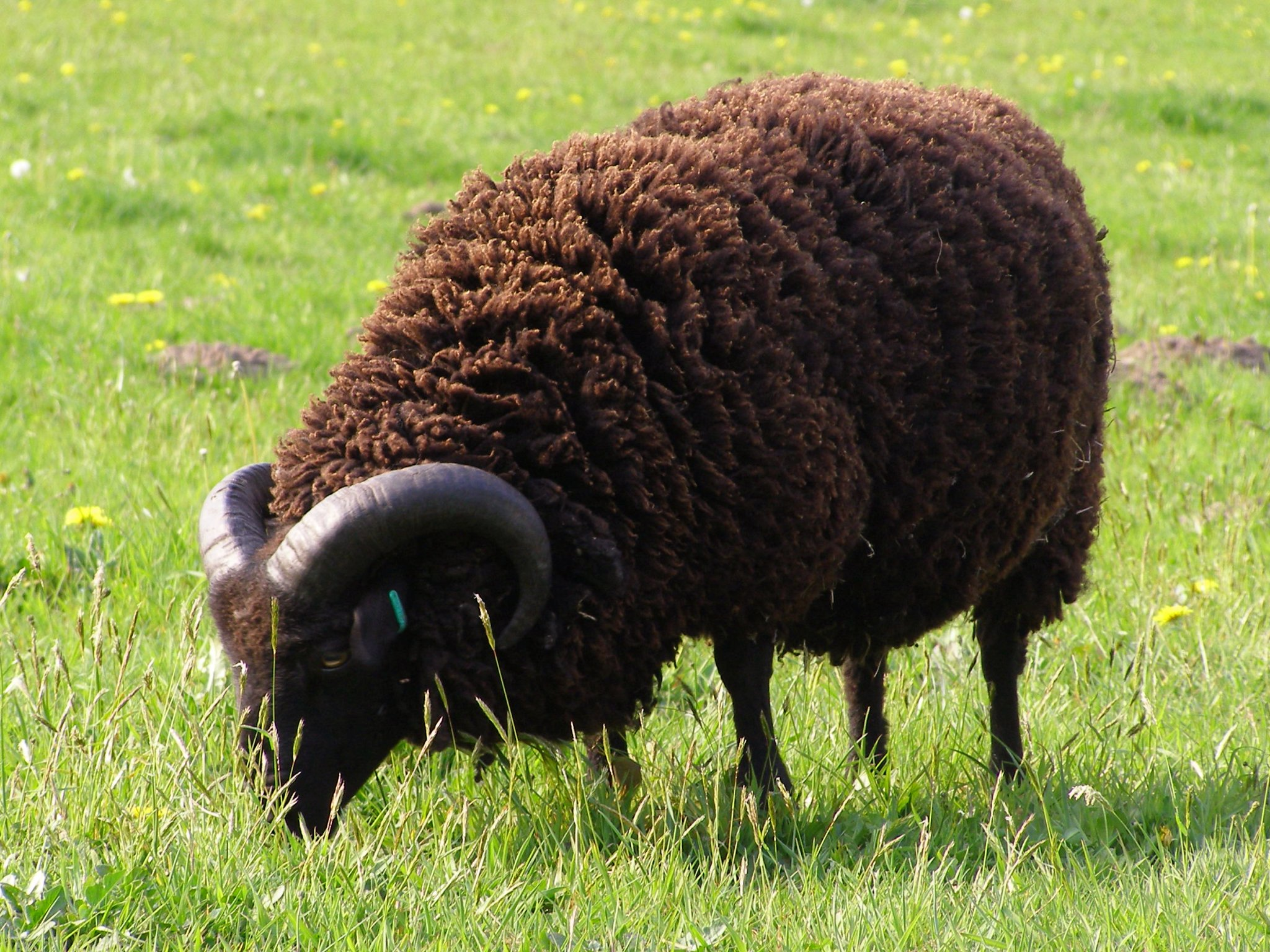 A Hebridean ram